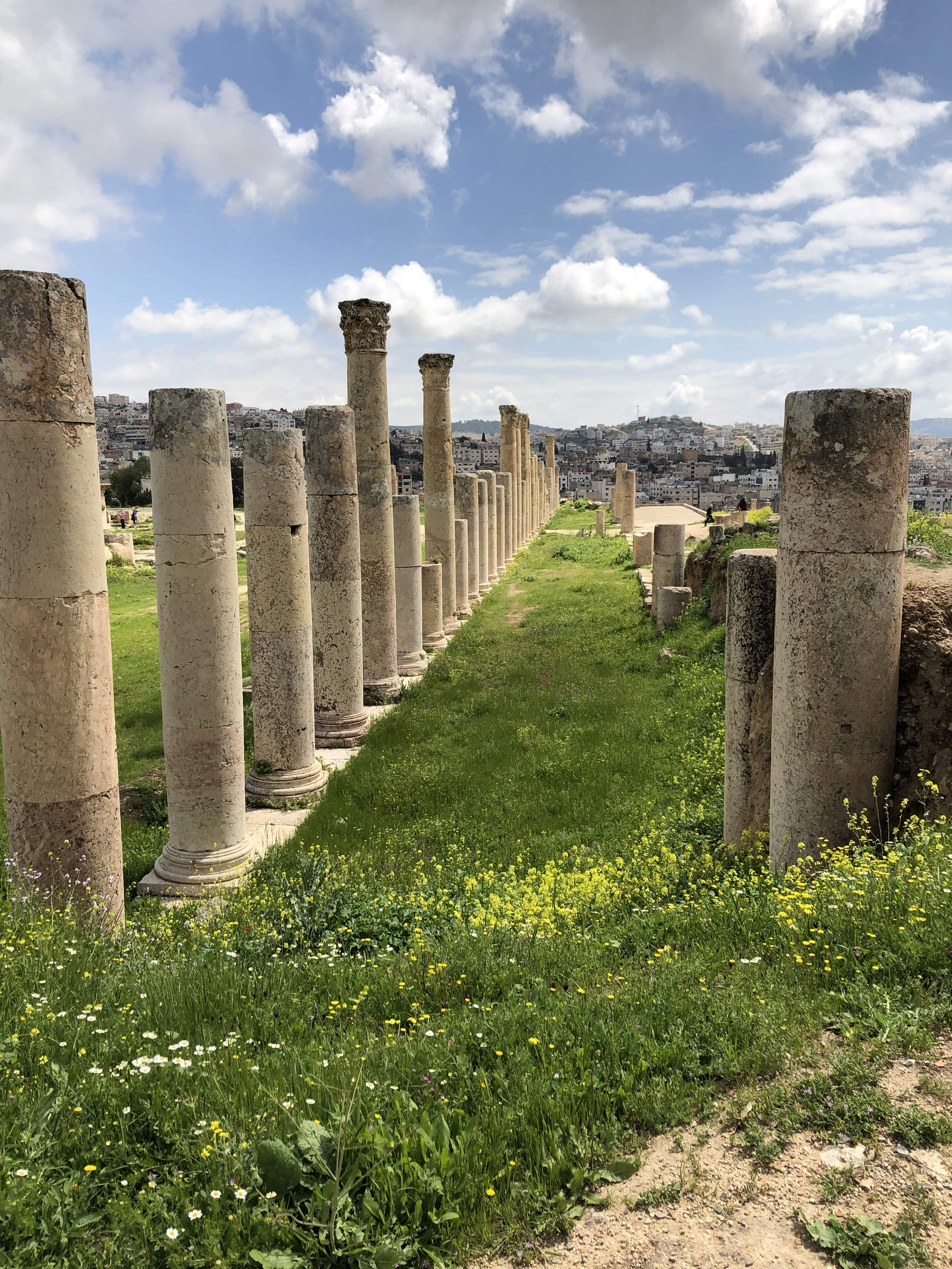 Temple of Artemis in Jerash